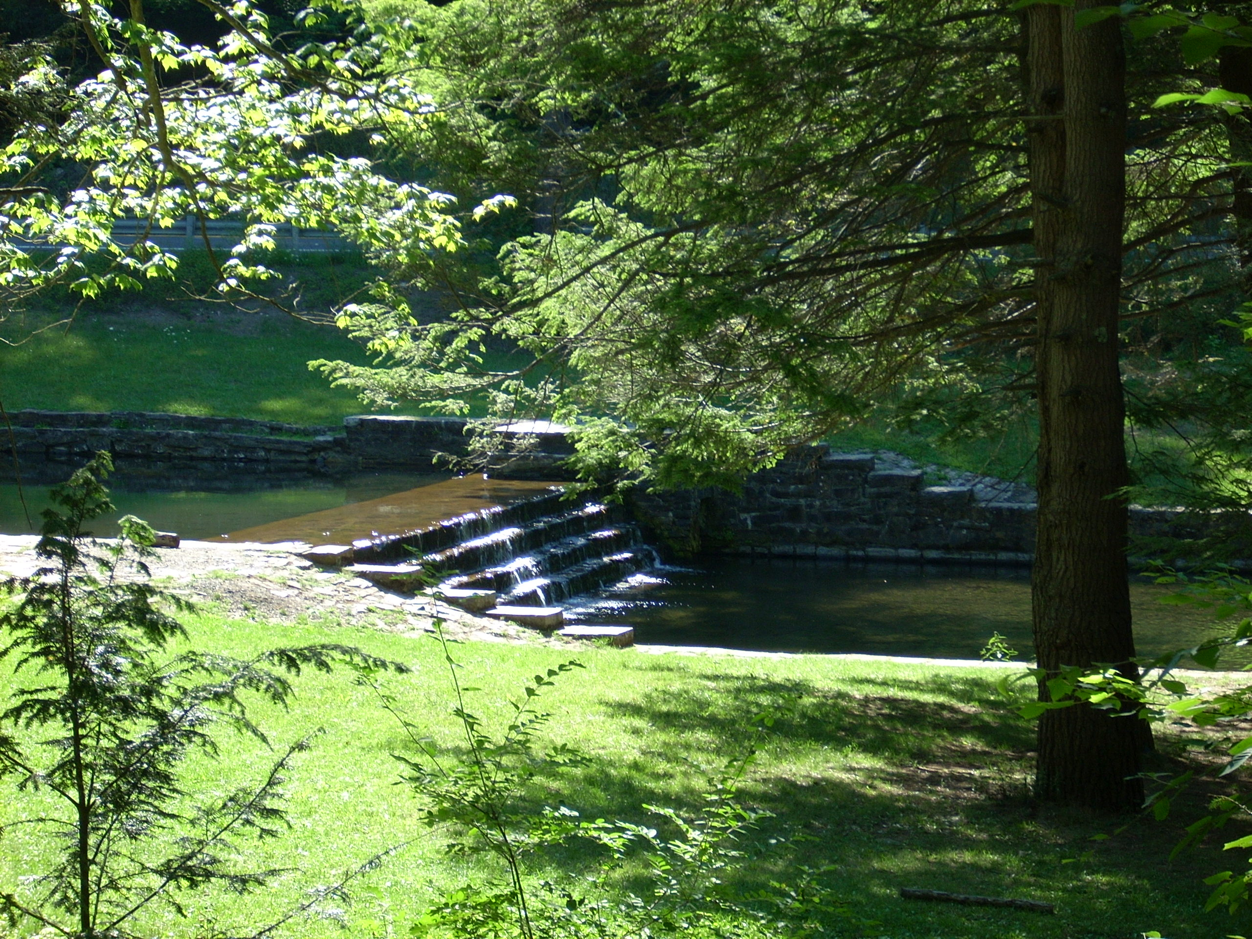 Rauchtown Run and CCC dam in Ravensburg State Park, Clinton County, Pennsylvania, USA (within the Tiadaghton State Forest).